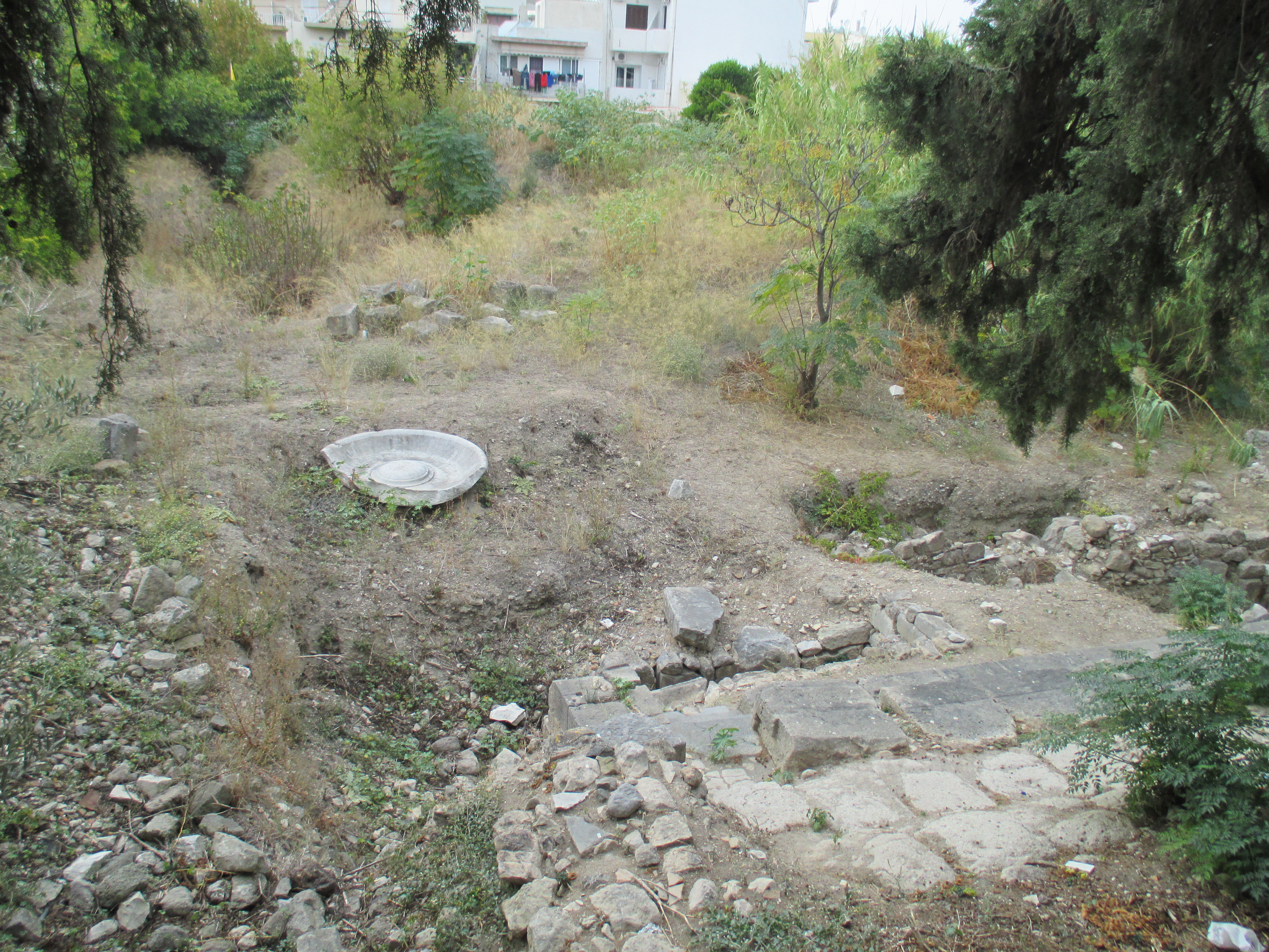 Archaeological area of the Ancient Stadium of Kos. Kos town, Greece.